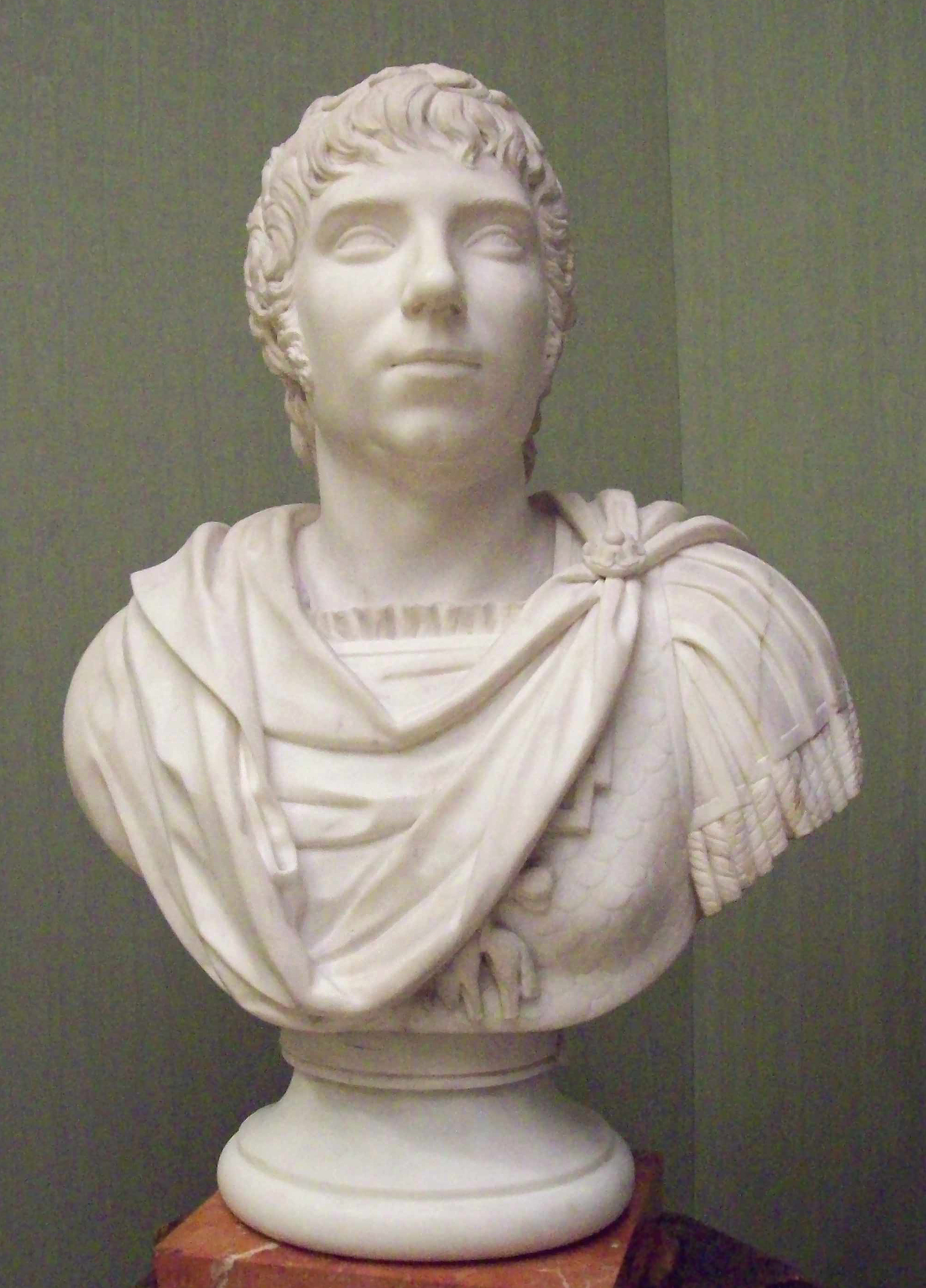 Depicted person: Manuel Godoy.